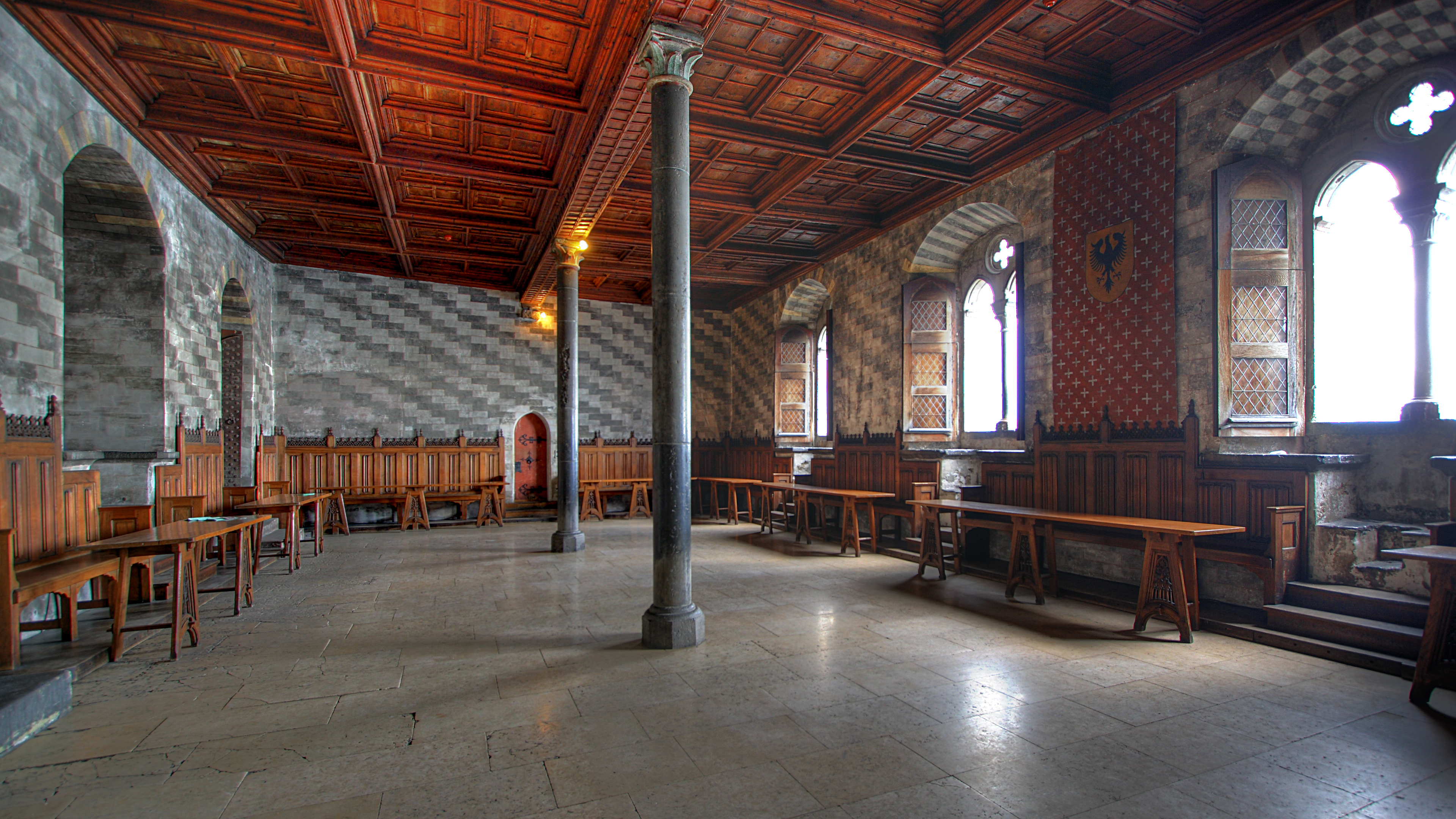 Great Hall of the Count in the Château di Chillon has slender black marble pillars, shimmering chequered wall decoration, a coffered ceiling dating from the fifteenth century, and four windows over the lake topped by a beautiful four-leafed clover design.